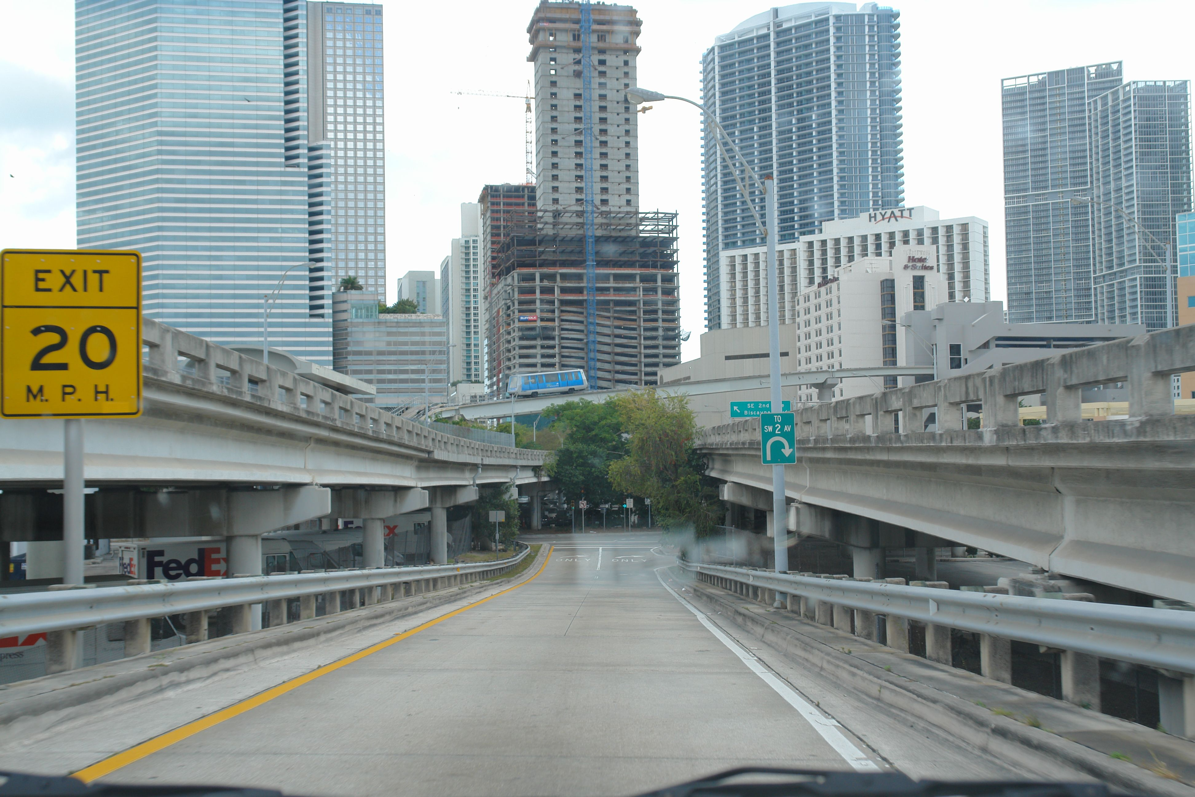 Highway in Miami with Metromover